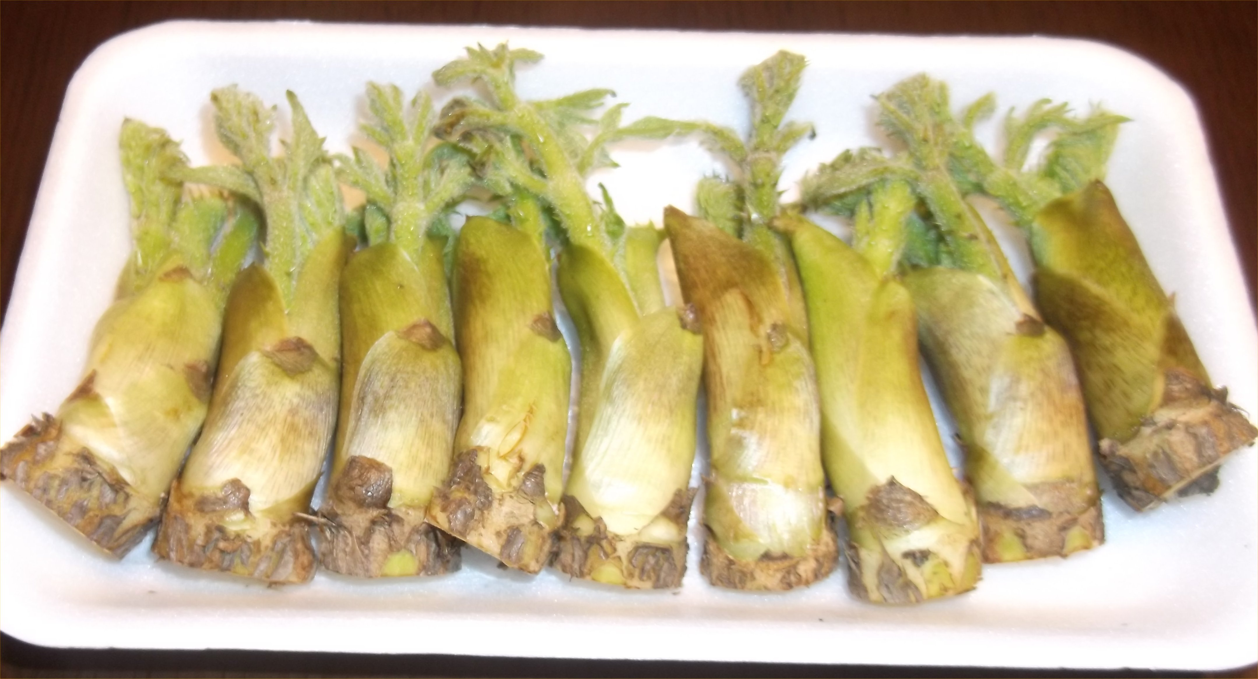 A photo of "Fatsia sprouts"(Taranome)(a Japanese traditional vegetable).